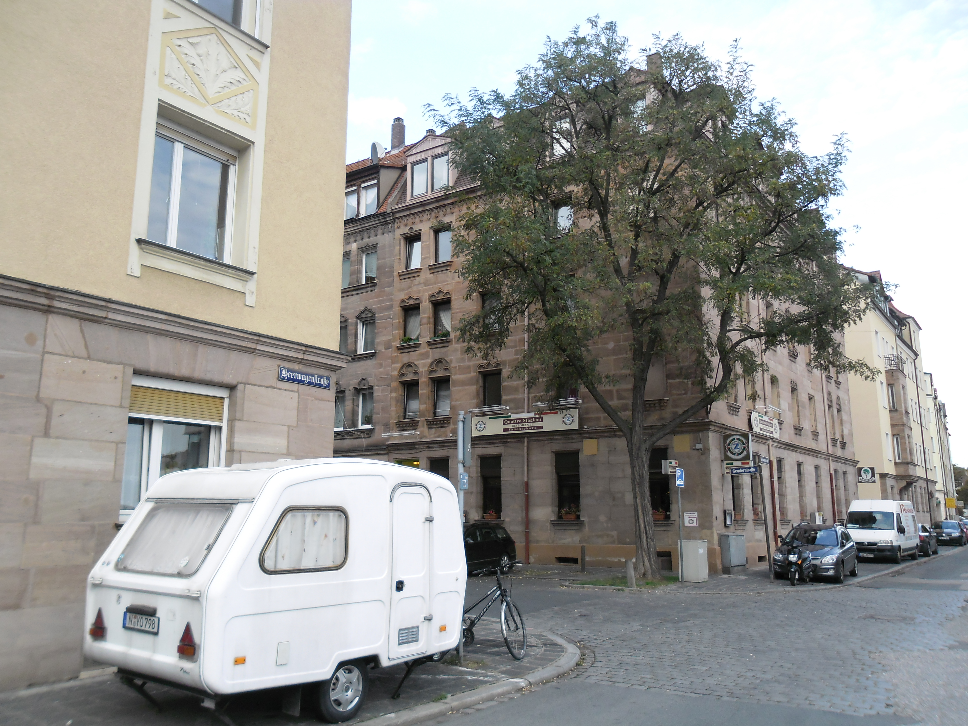 Parked Caravan Niewiadów N126 in Heerwagenstraße in Nuremberg